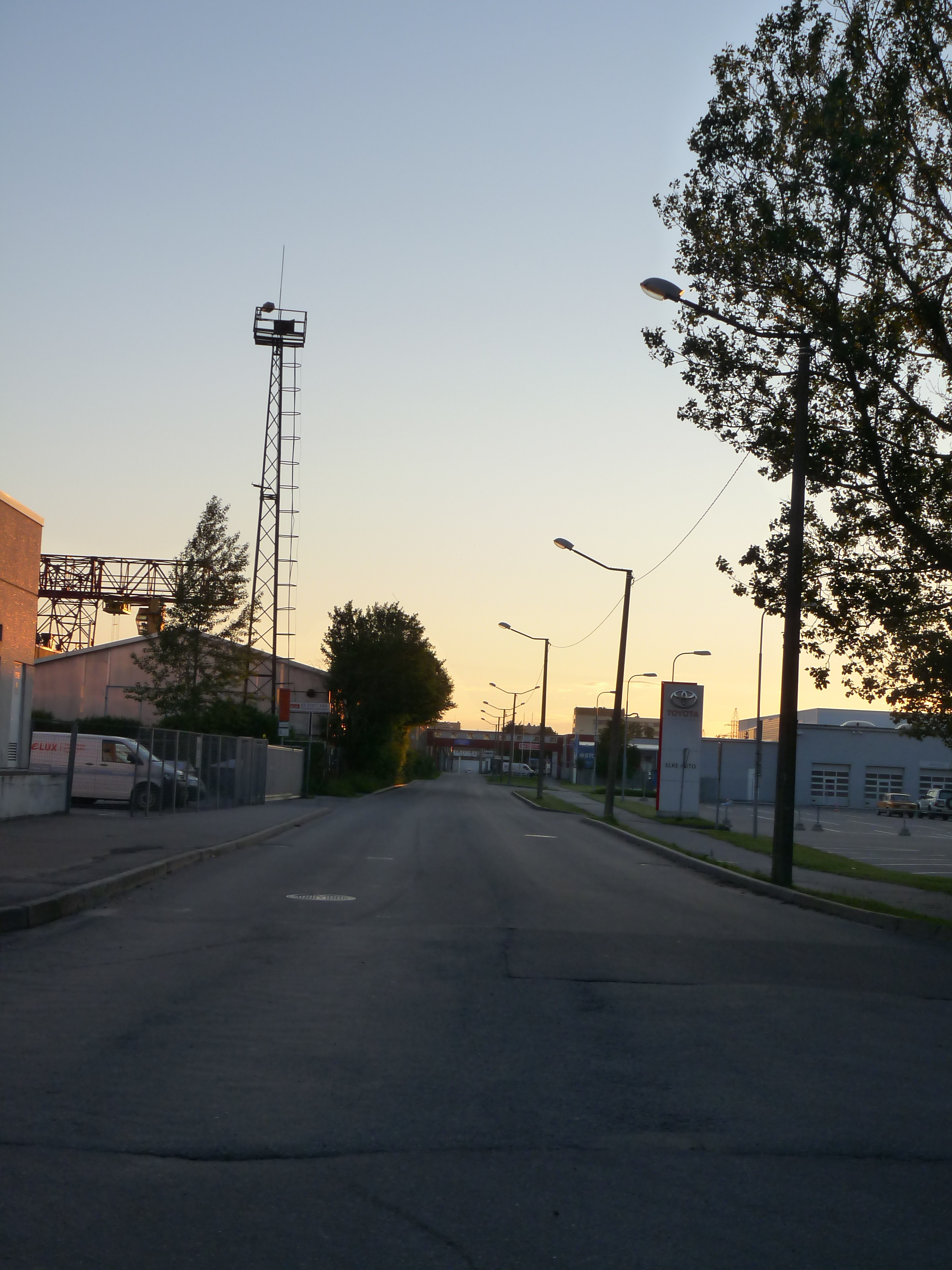 Forelli street in Tallinn, Estonia